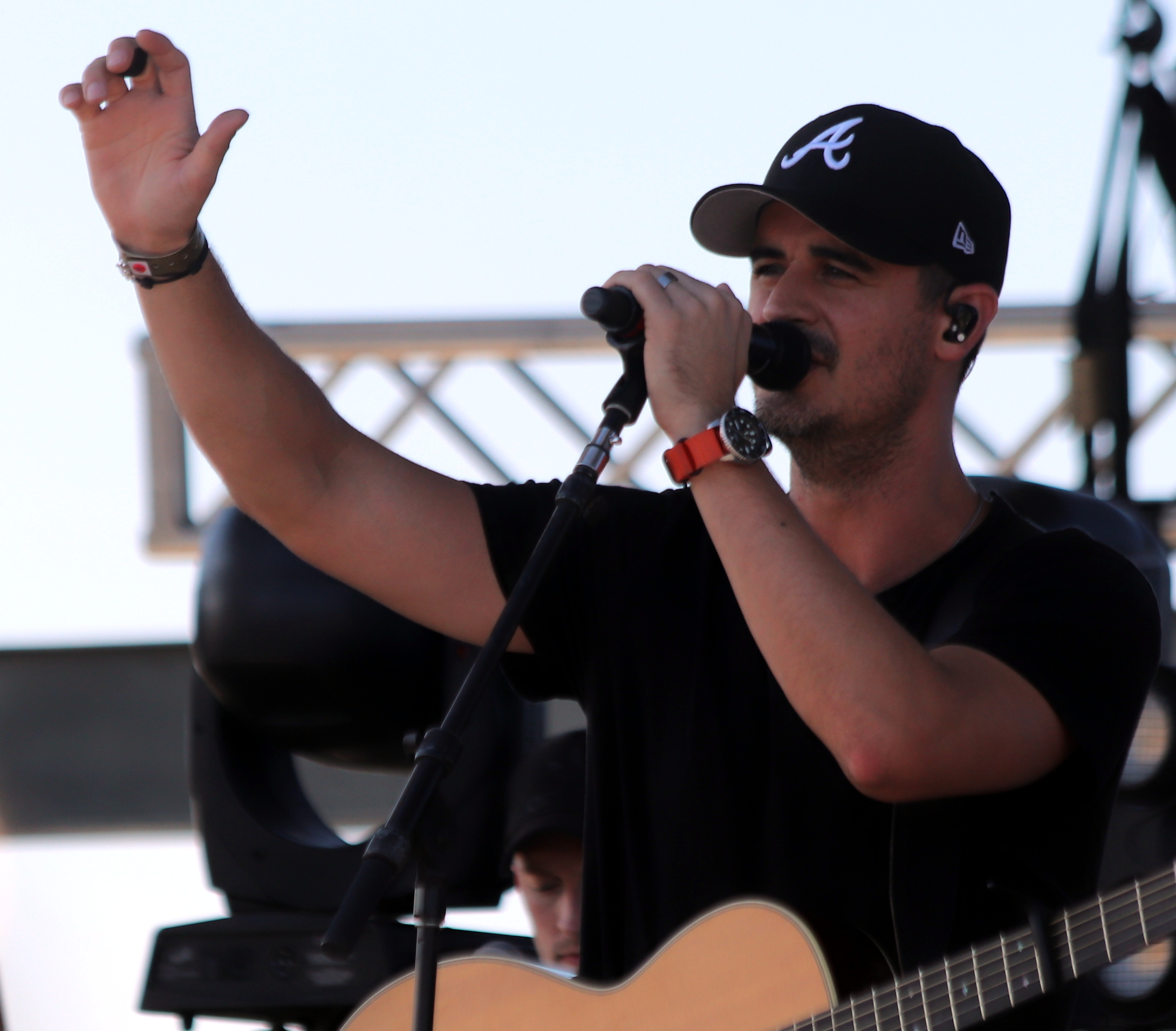 Kristian Stanfill performing with Passion Music at Lifest.